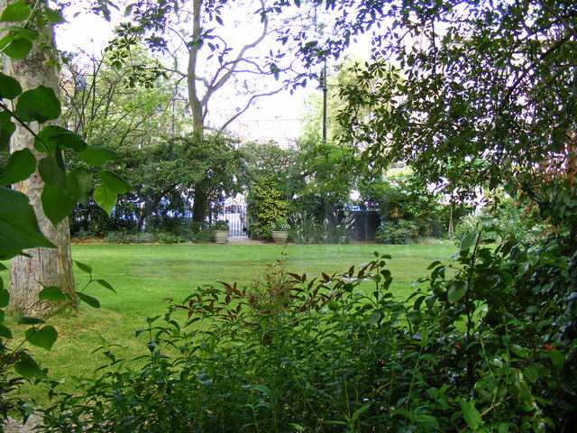 Wilton Crescent Gardens Wilton Crescent was built by Thomas Cundy, to the original 1821 Wyatt plan for Belgravia.